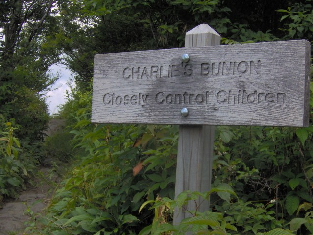 Sign at the entrance to Charlies Bunion, in the Great Smoky Mountains of East Tennessee. The Appalachian Trail, which crosses the mountain's steep northern face, is on the left.